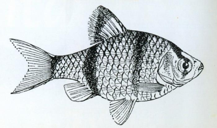 Puntius anchisporus, Drawing from the original description